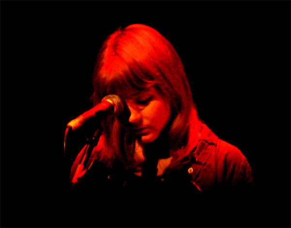 Photo of Polish singer Ilona Sojda